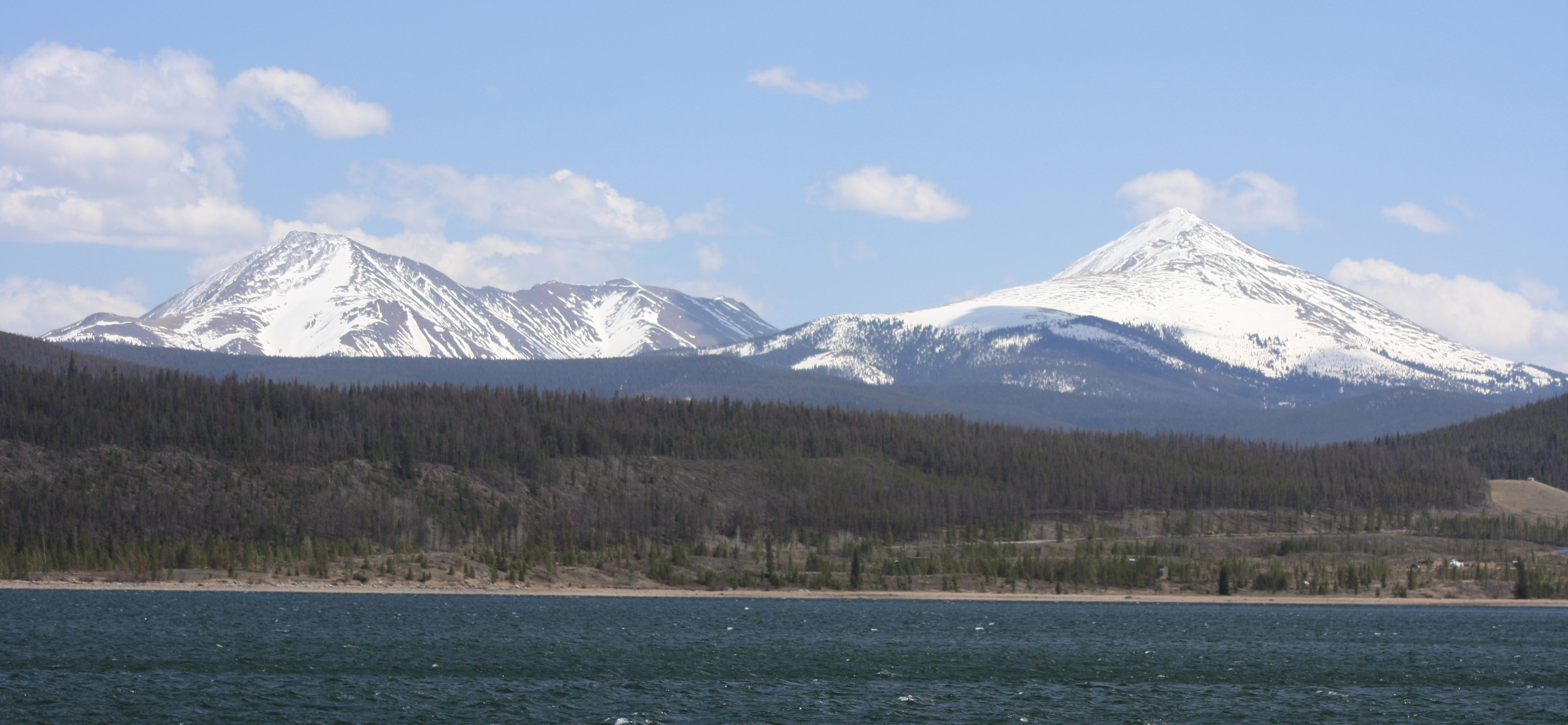 Mount Guyot and Bald Mountain, taken from Dillon Reservoir.